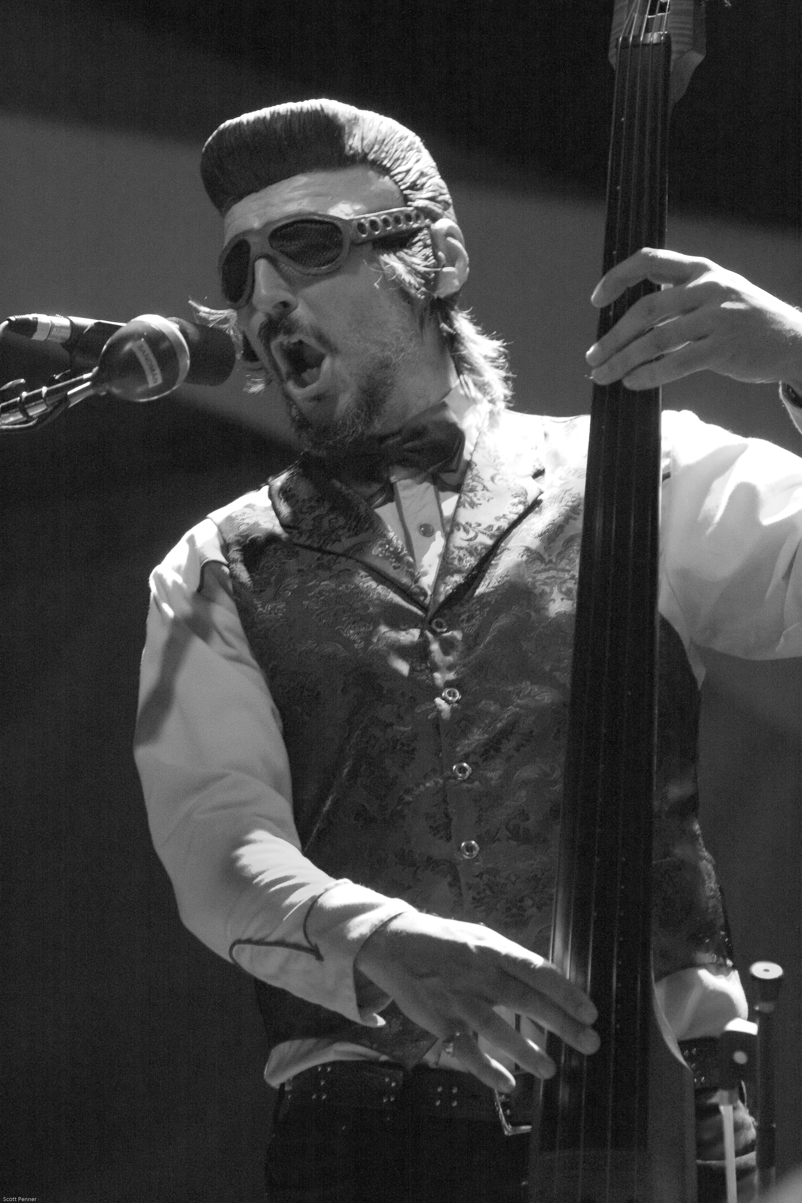 Thursday July 16'th 2009 Cisco Systems Ottawa Bluesfest Hard Rock Cafe Stage Of Fungi and Foe is the second solo album by Les Claypool. The album was released on the 17th of March, 2009. Photo-Scott Penner(